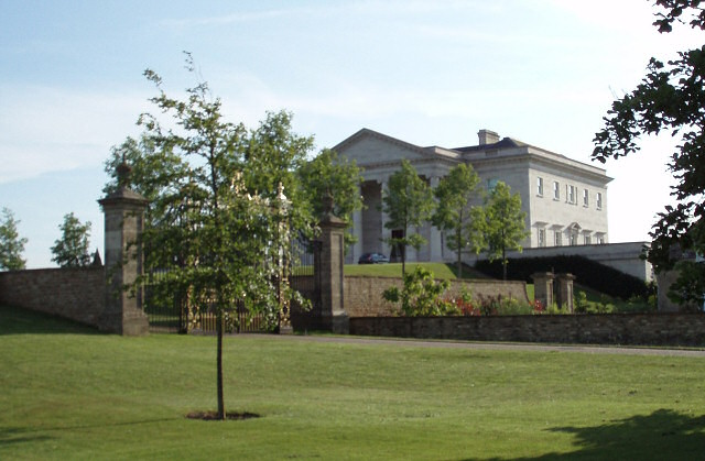 Tusmore House, Oxfordshire, built in 2004 in neo-Georgian style. It cost £30 million and is built on the site of the original Tusmore House, built in 1770 and demolished in 1961. It is one of several homes around the World owned by Wafic Said, a billionaire Arab businessman.